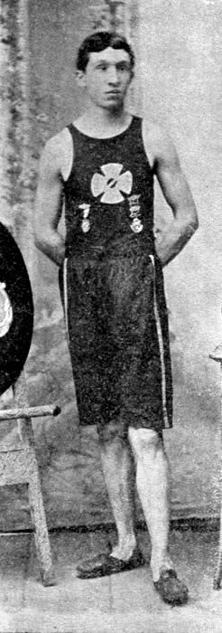 John J. MacDermott, winner of the first Boston Marathon